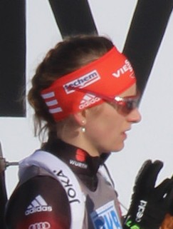 Vanessa Hinz at Biathlon World Cup 2015 in Nové Město, Czech Republic – sprint women